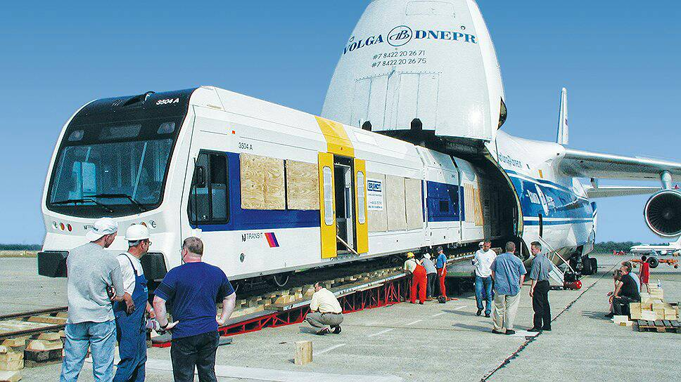 An Antonov An-125 in unloaded mode, exporting a metro for the airport's Railink service.